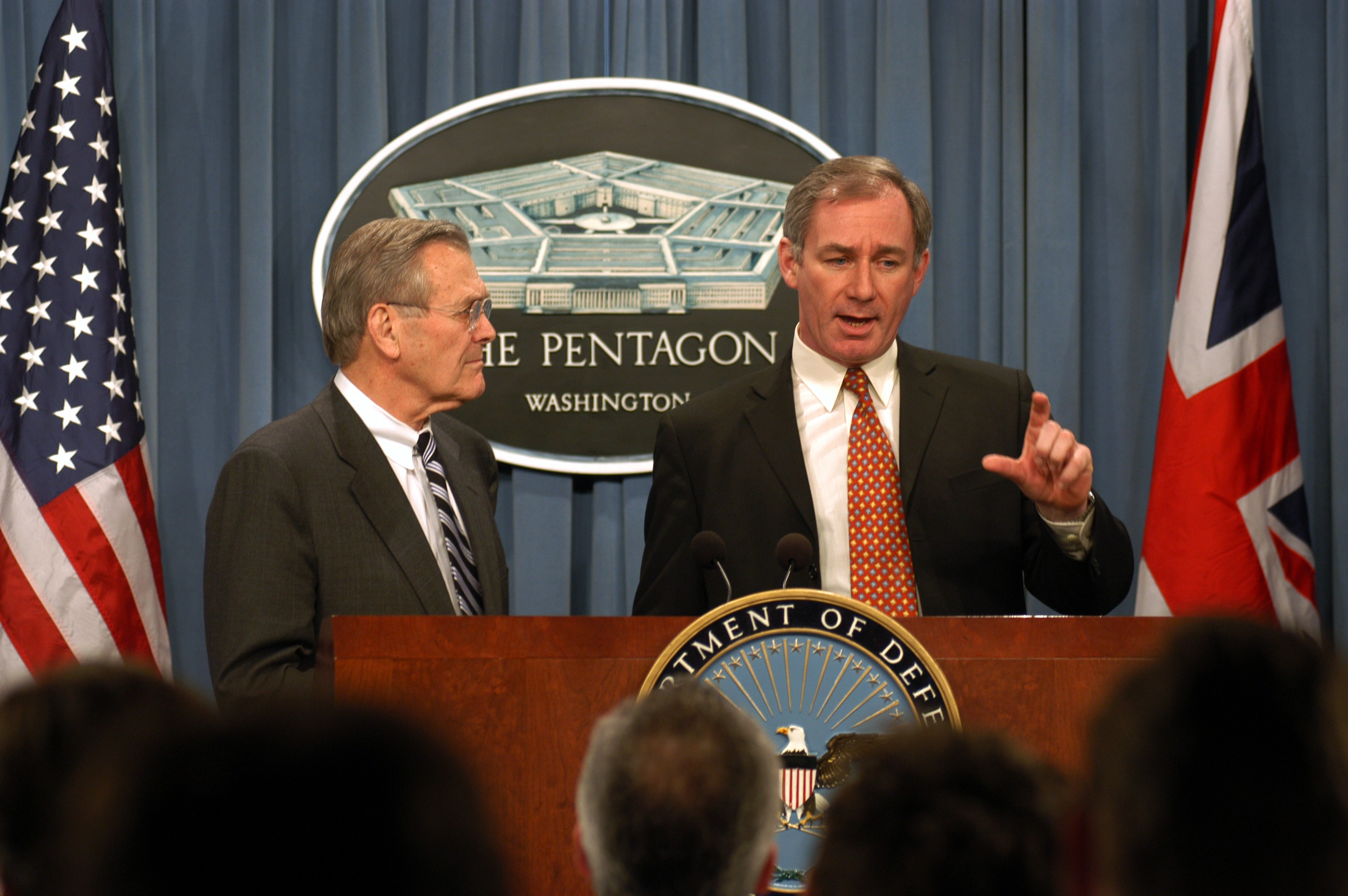 Britain's Secretary of State for Defence Geoffrey Hoon (right) comments on his country's view of going to war in Iraq without a United Nations' resolution specifically authorizing military action during a joint press conference with Secretary of Defense Donald H. Rumsfeld (left) in the Pentagon on Feb. 12, 2003. Hoon and Rumsfeld met earlier to discuss the war on terror and the situation with Iraq.